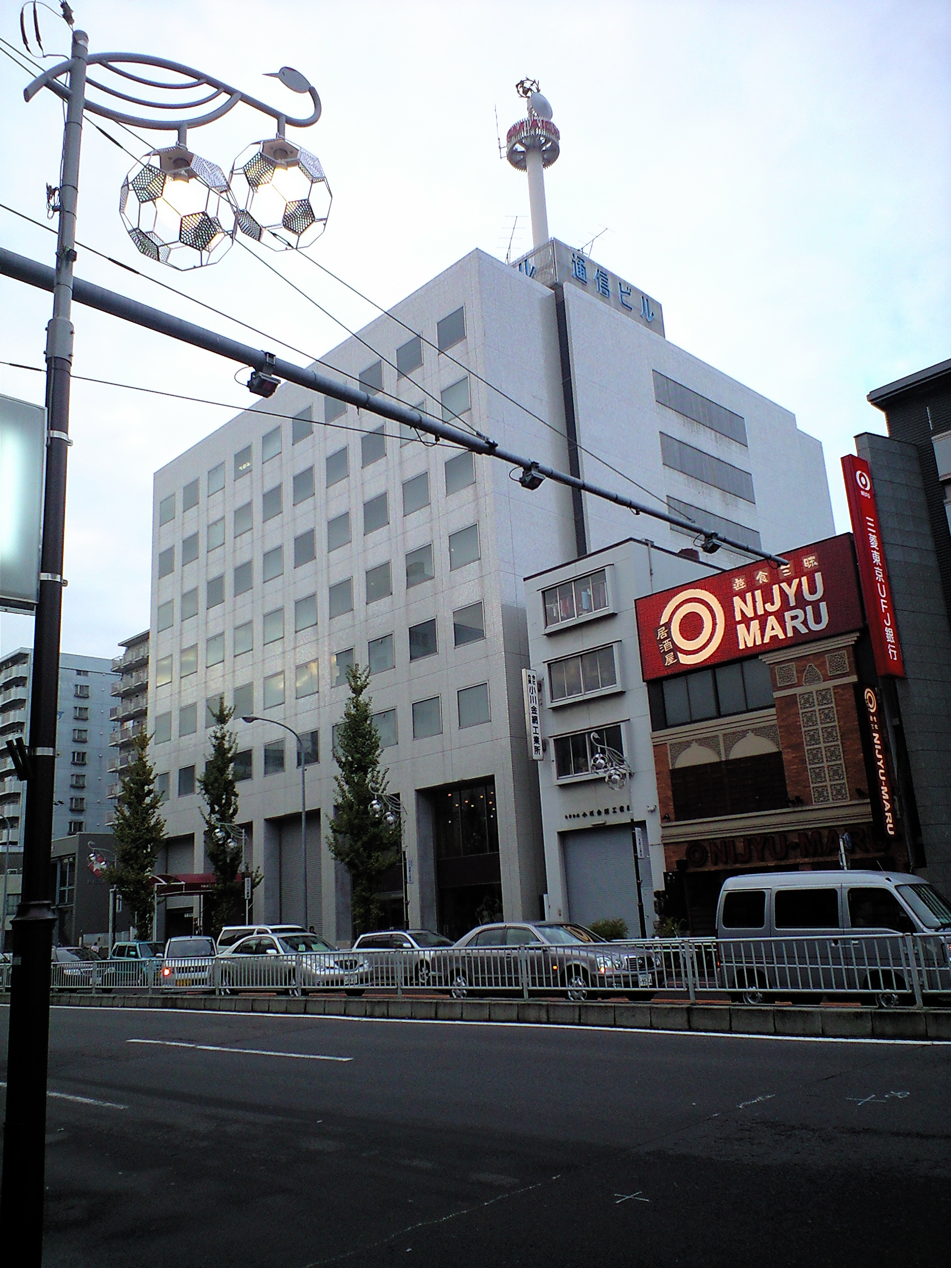 The building moving into FM AICHI